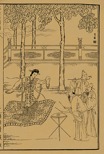 This illustration comes from the Yuan play "Tang Emperor Minghuang Listening to Rain on Firmiana Trees on an Autumn Night" (唐明皇秋夜梧桐雨), compiled in "Yuan Dynasty Plays" (元人雜劇選). It is based on Bai Juyi's (白居易) epic poem "Song of Everlasting Sorrow" (長恨歌), which tells the story of the emperor and his beloved concubine Lady Yang. The play contains four acts, entitled respectively: "Double Seven Celebrations at the Palace of Immortality" (長生殿慶七夕) "Dance at the Pavilion of Scents" (沈香亭舞霓裳) "Death of Lady Yang at Mawei Hill" (馬嵬坡楊貴妃之死) "Emperor Minghuang Mourns Lady Yang on a Rainy Late Autumn Night" (唐明皇深秋雨夜奠楊貴妃等) This print depicts a scene from the second act, as the beautiful Lady Yang dances elegantly. Her movements are graceful and her sleeves fluttering gently, the viewer thus also sharing in the beauty of this occasion.